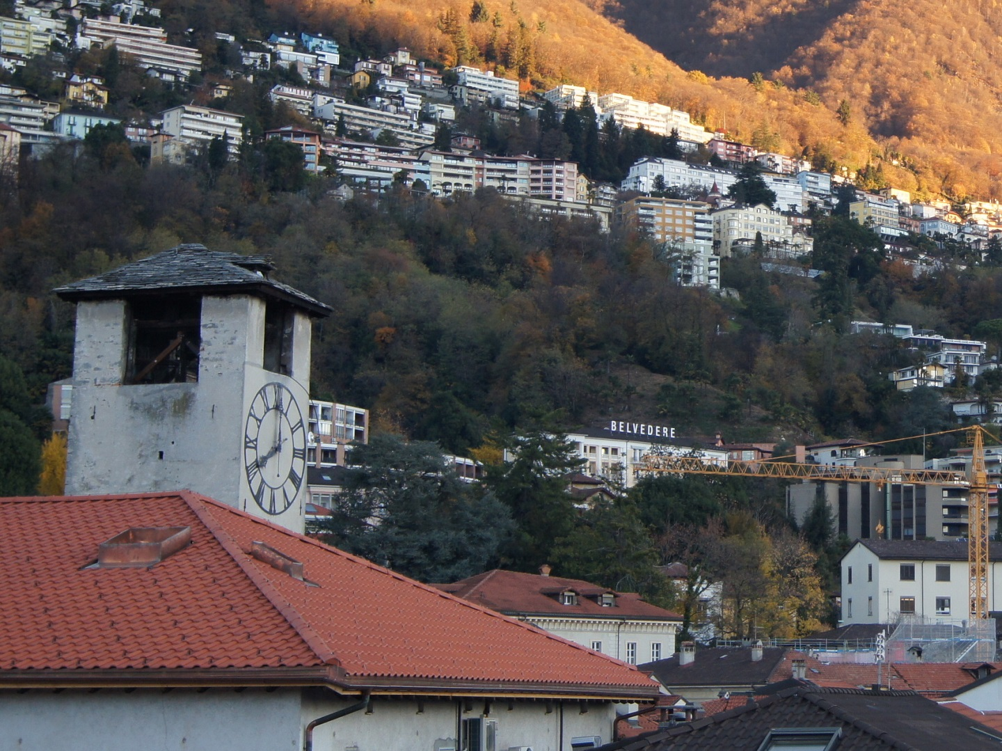 The clock tower "Torre del Comune" (Torre die Piazza) in Locarno